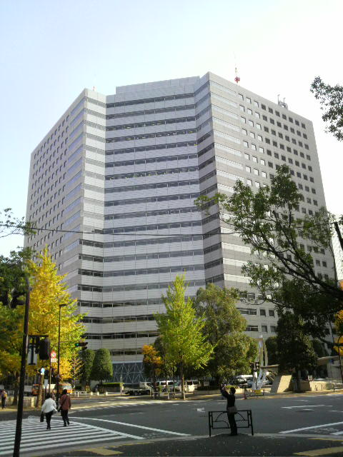 Urbannet ootemachi